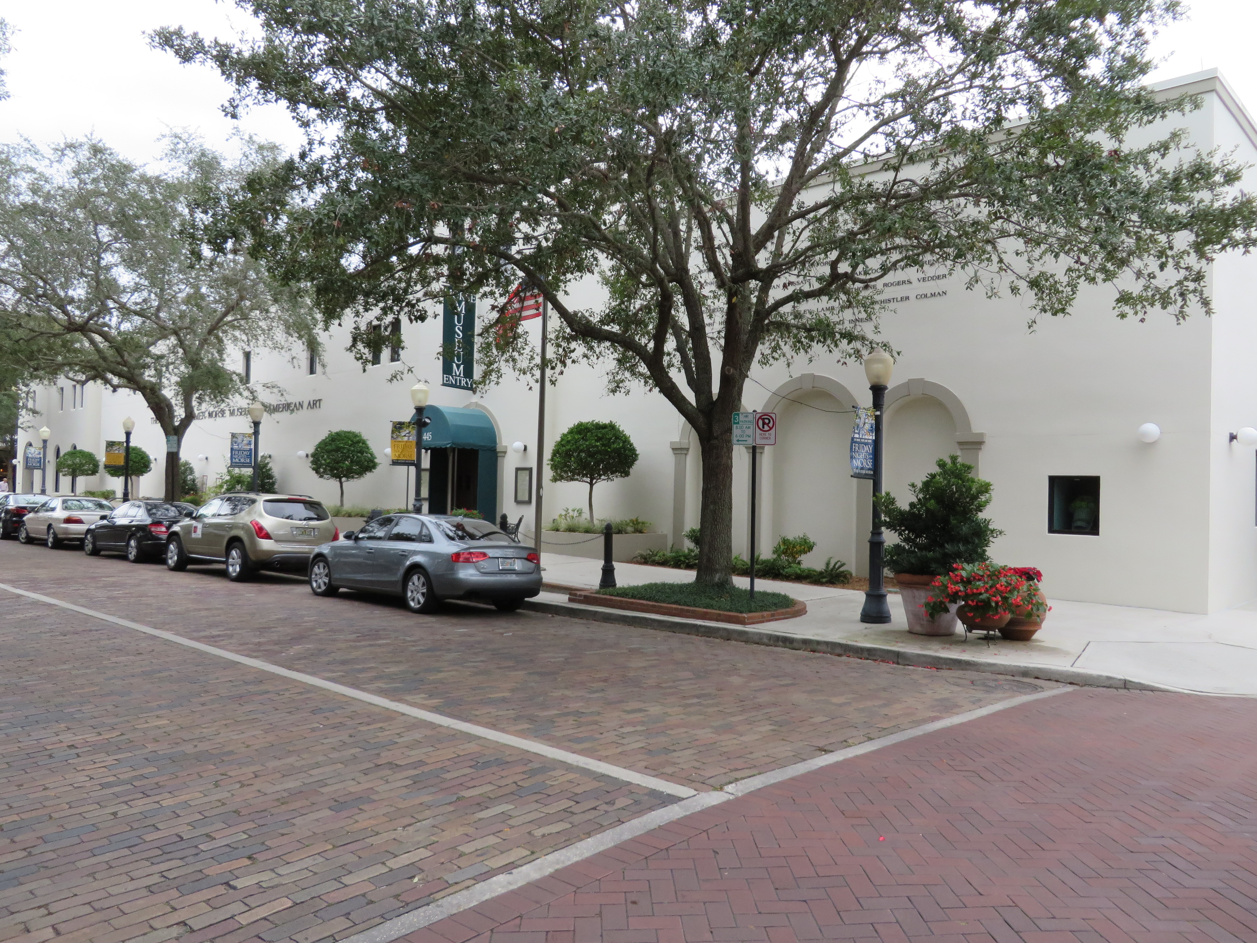 The Charles Hosmer Morse Museum of American Art, 445 North Park Avenue, Winter Park, Florida.